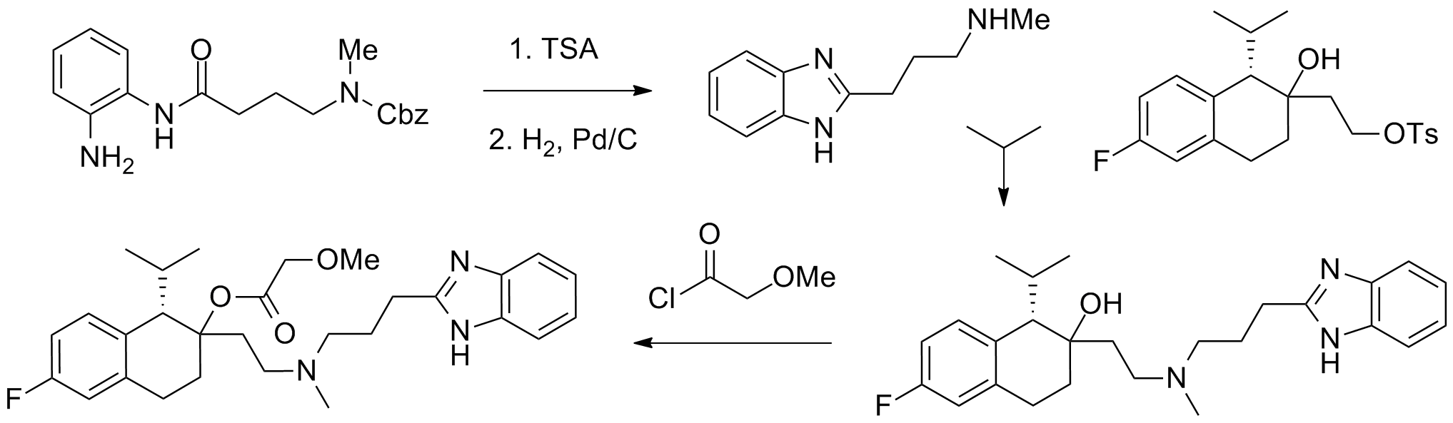 YU22988 ZW20087